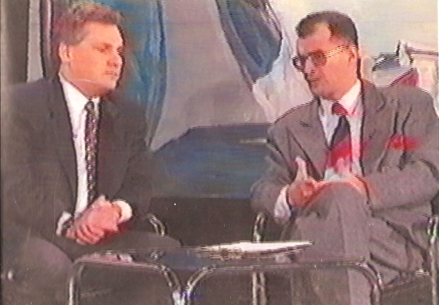 A.T.Kijowski's Talk Show whith Aleksander Kwaśniewski